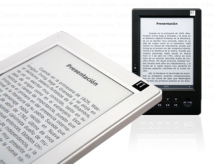 PAPYRE 6.1 (E-Book)